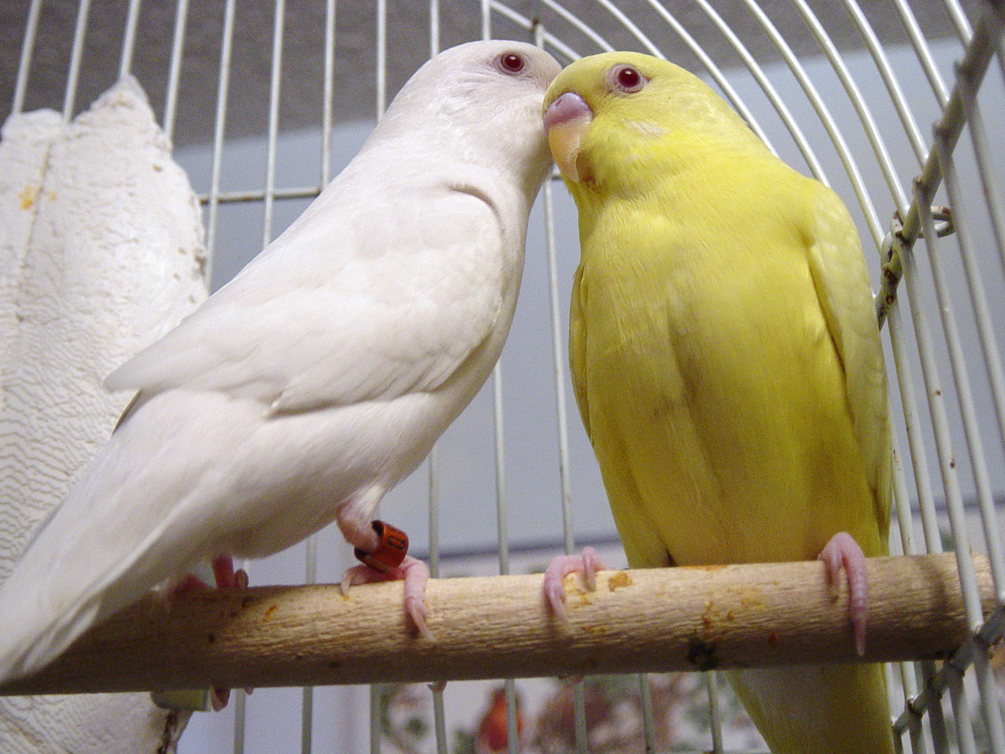 Albino female and lutino male Budgerigars, Melopsittacus undulatus.